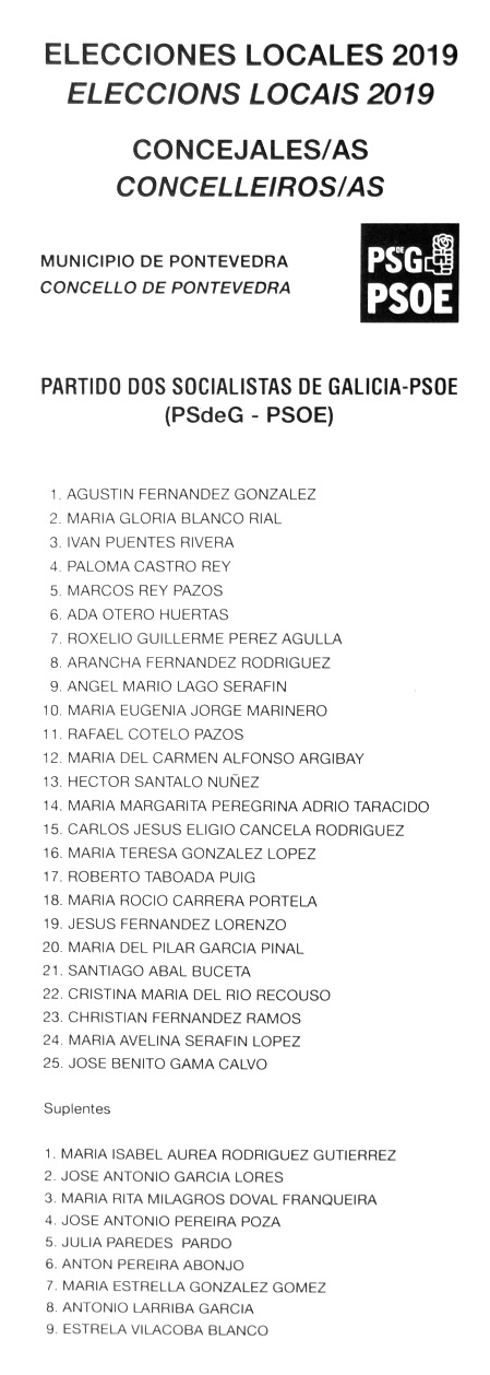 See title.